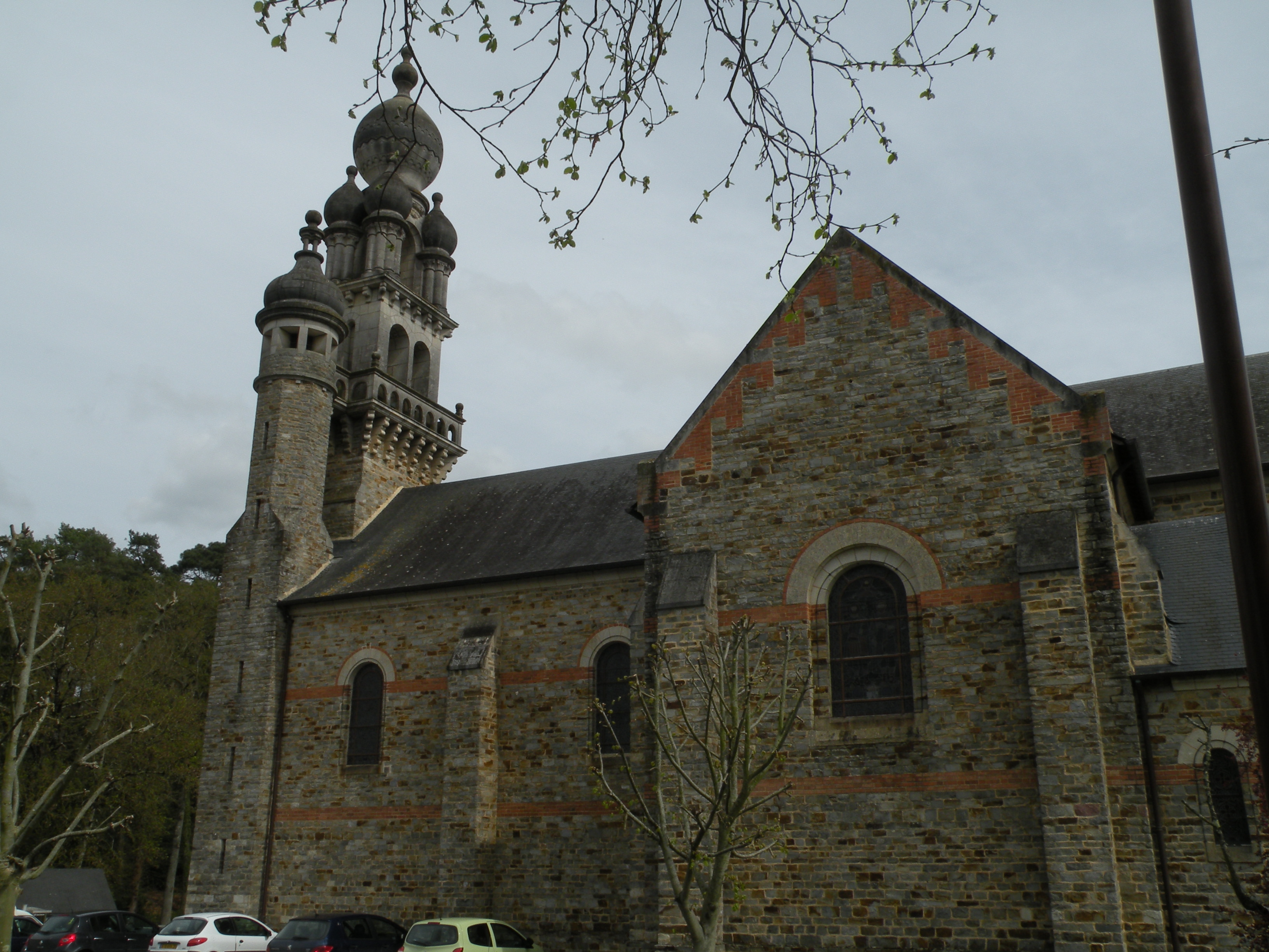 Church of Saint-Senoux.